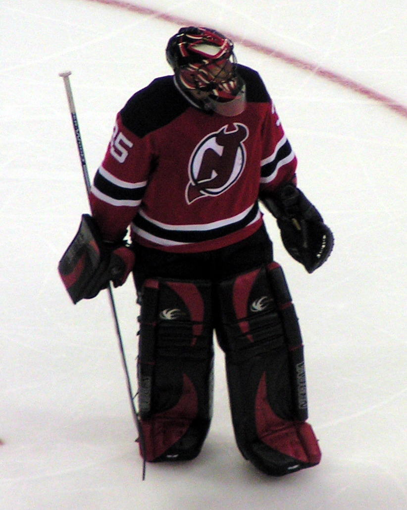 Scott Clemmensen plays a homegame against Washington